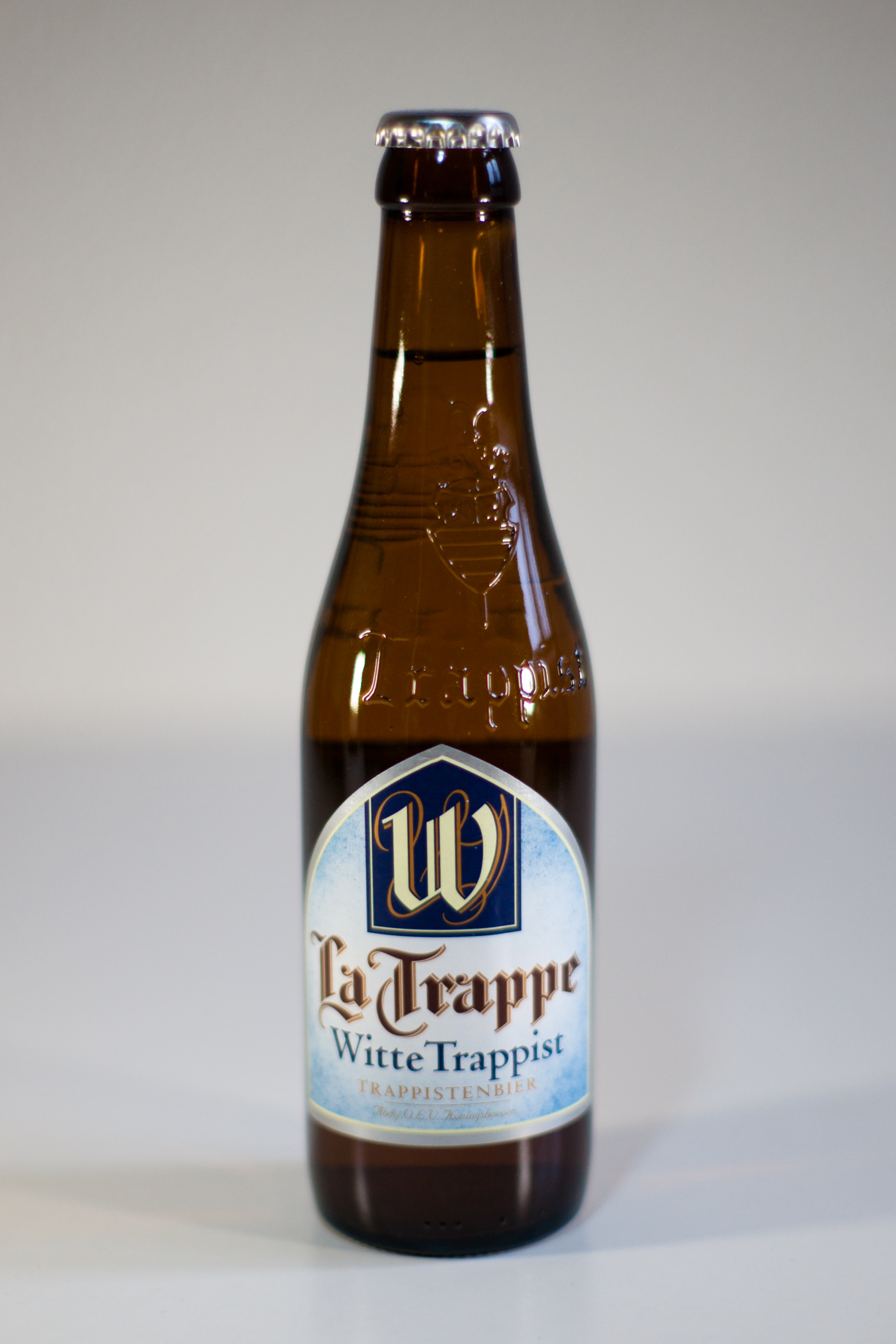 La Trappe, White Trappist.